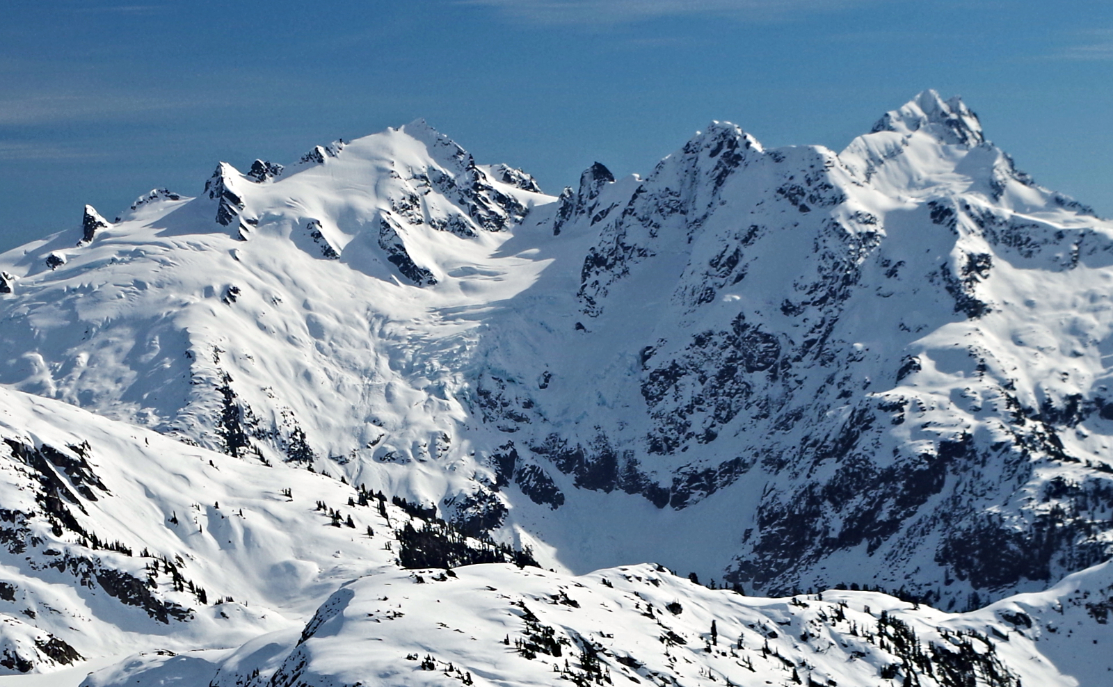 Left to rightː Pelion Mountain, Ossa Mountain, Mt.Tantalus seen from the northwest at Coin Peak